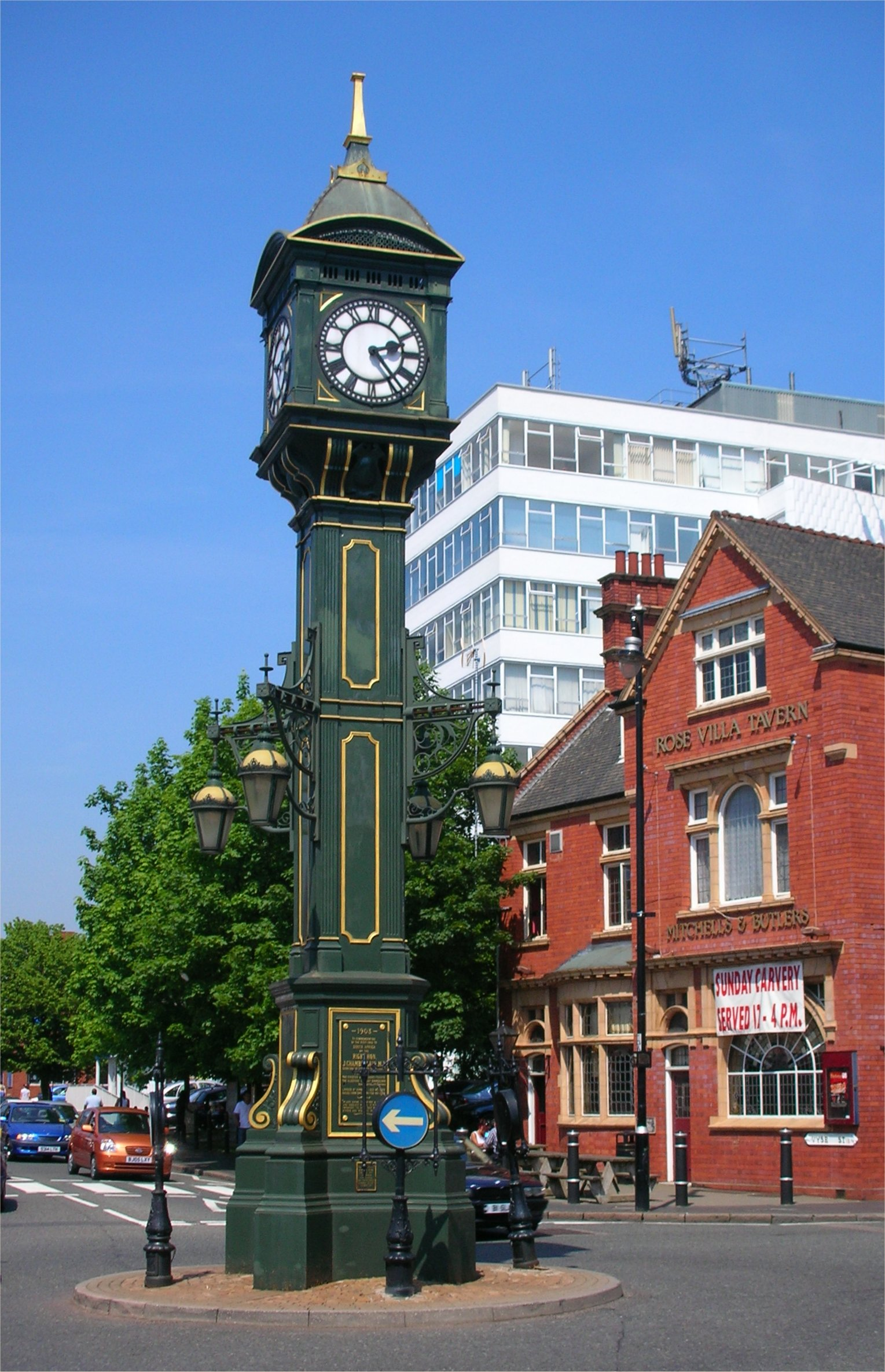 Chamberlain Clock at the junction of Vyse Street and Warstone Lane, in the centre of the Jewellery Quarter of Birmingham, England.